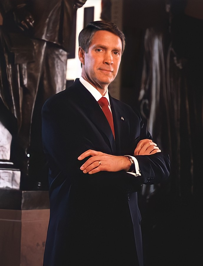 Bill Frist, U.S. Senator from Tennessee.